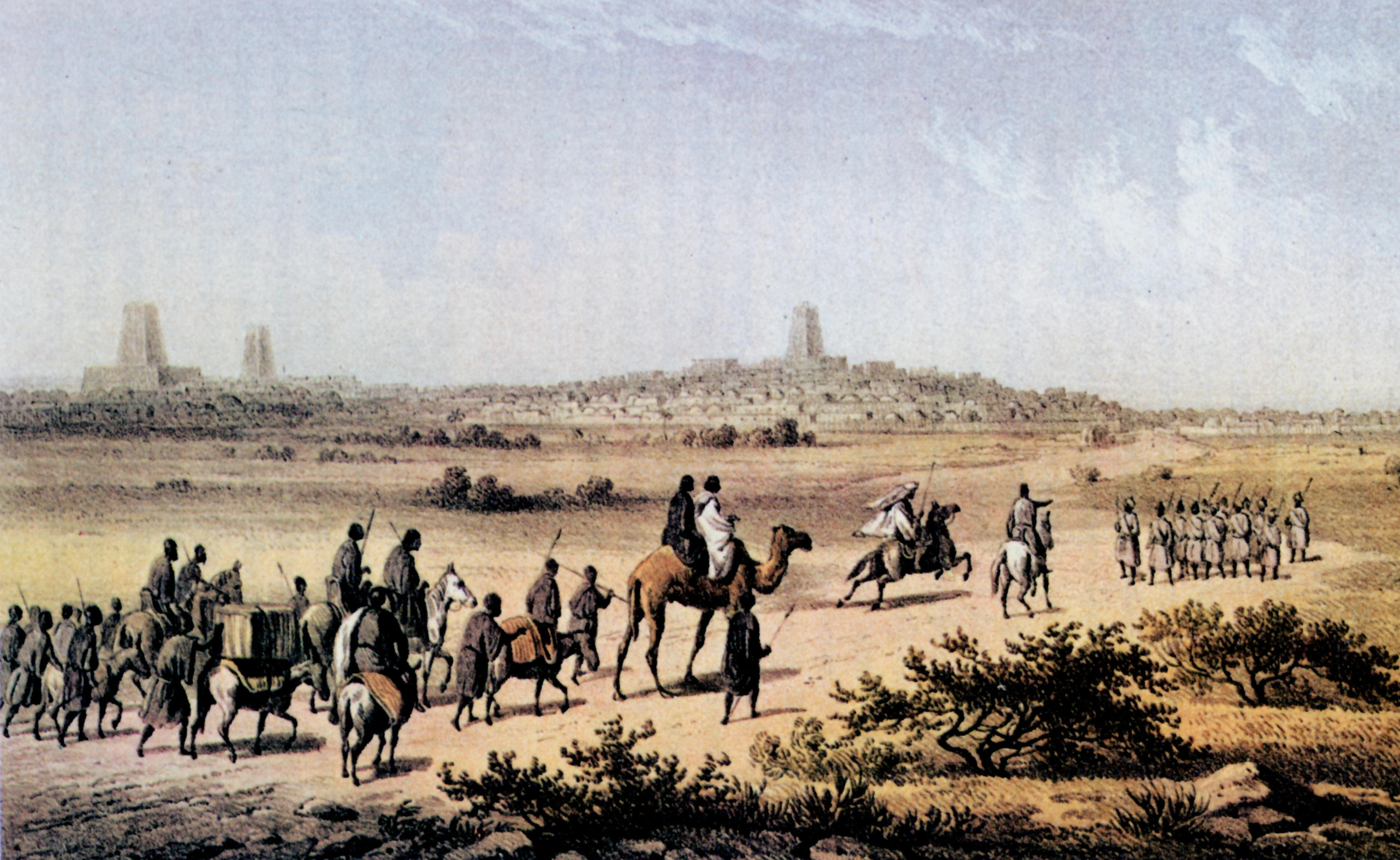 Timbuktu seen from a distance by Heinrich Barth's party, September 7, 1853